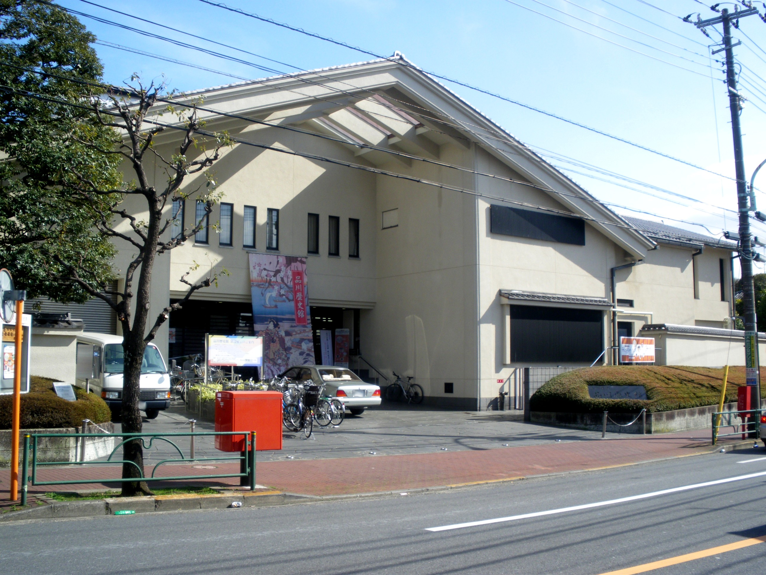 Shinagawa Historical Museum(Oi,Shinagawa,Tokyo)